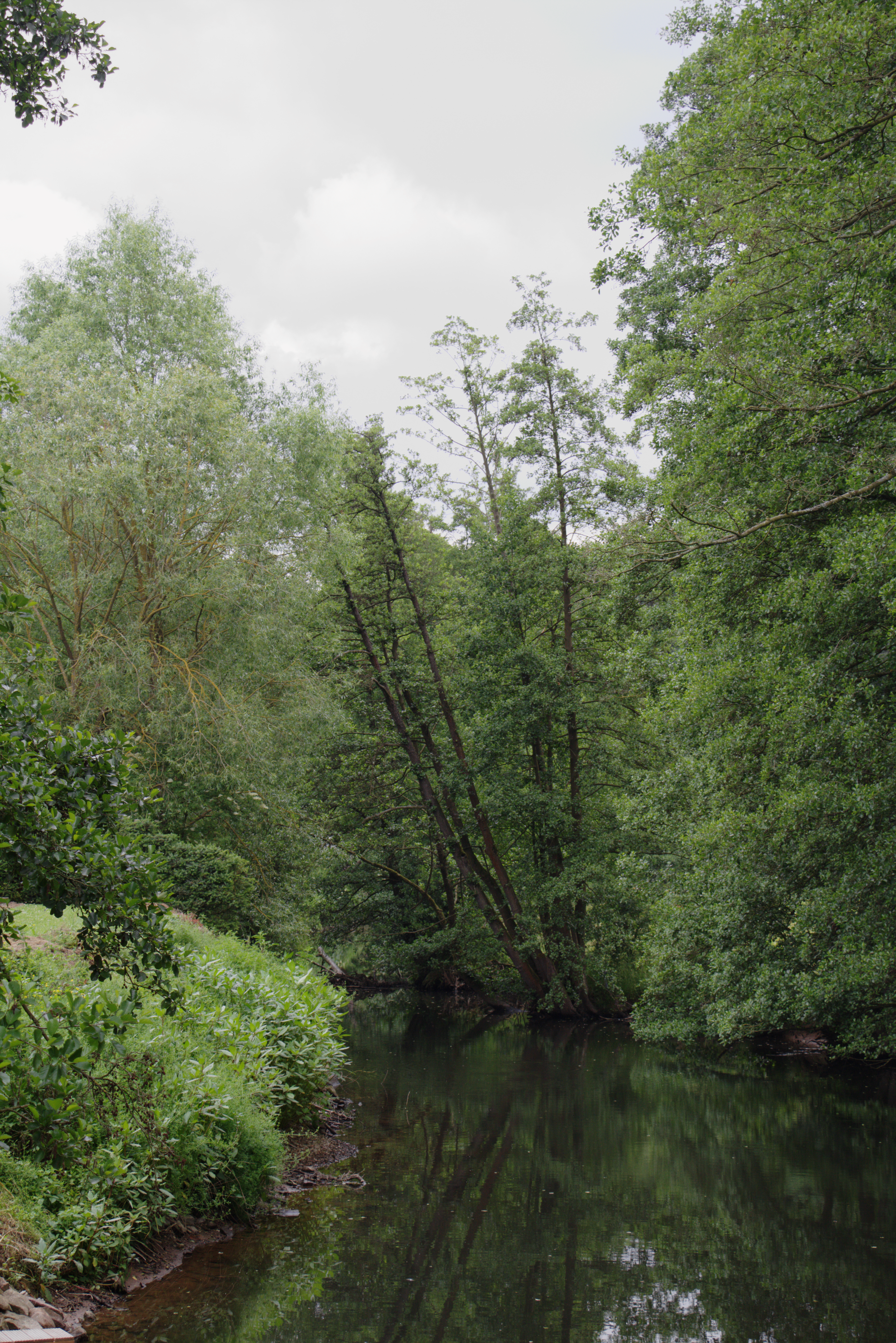 River Lueder "Auenverbund Fulda" Landscape Protection Area near Uffhausen, Grossenlueder, Hesse, Germany